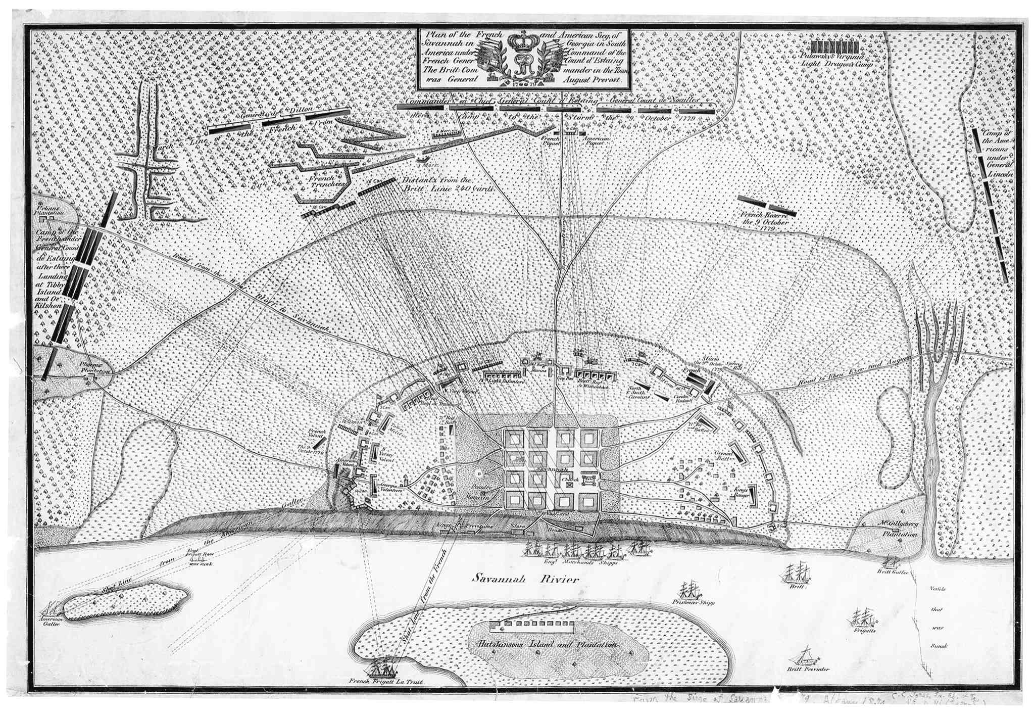 Map of the siege of Savannah by French and Americans in 1779. Map of 1874 made after a plan period.